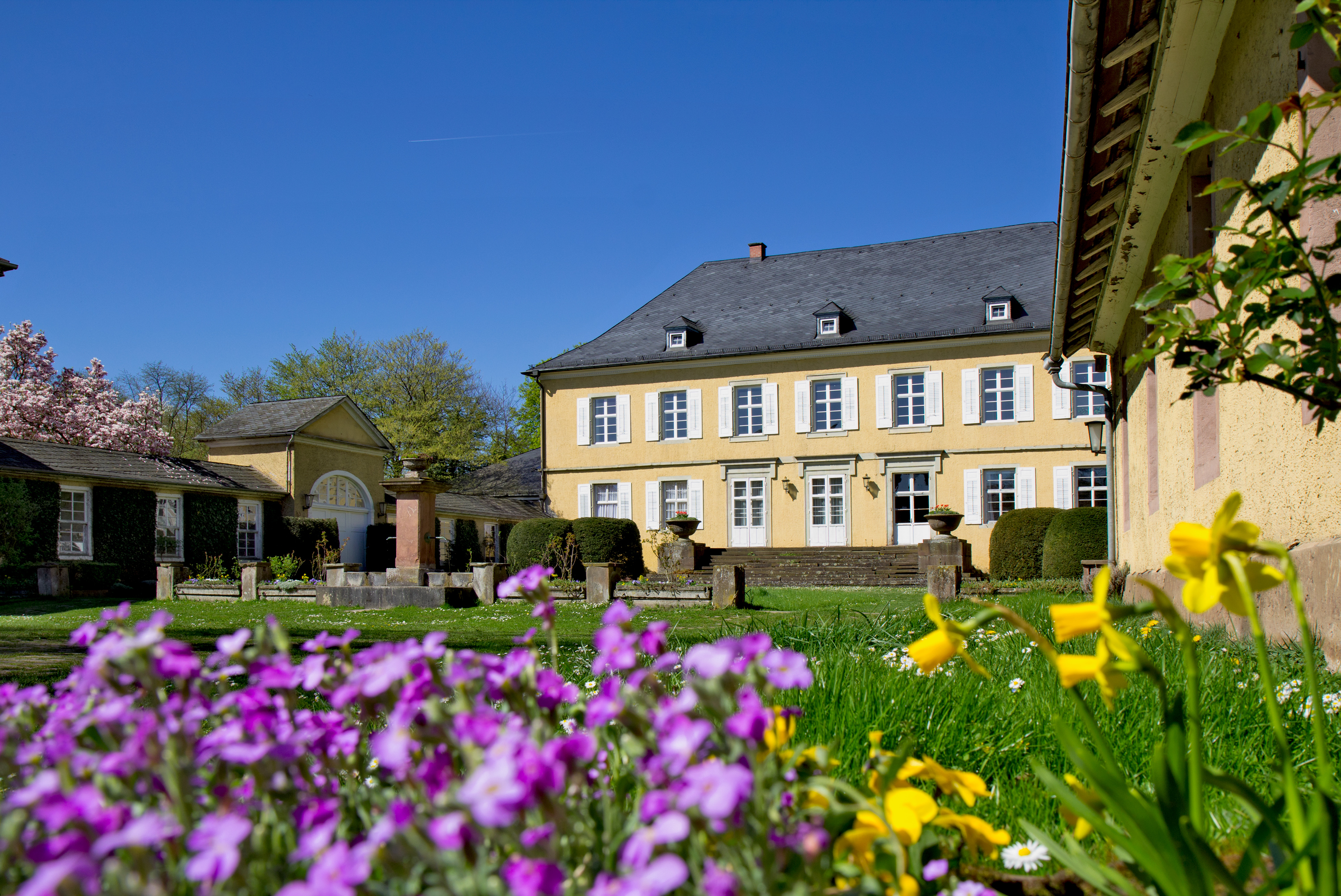 Bauschlott Castle